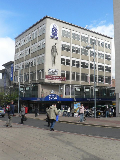 Sheffield: Castle House Situated in Angel Street, Castle House is the home of the Sheffield Co-op, whose clothing, homeware and electrical departments closed permanently on 26 April 2008. However, the food store will remain, as will peripheral business including a travel agent and the city's main post office.